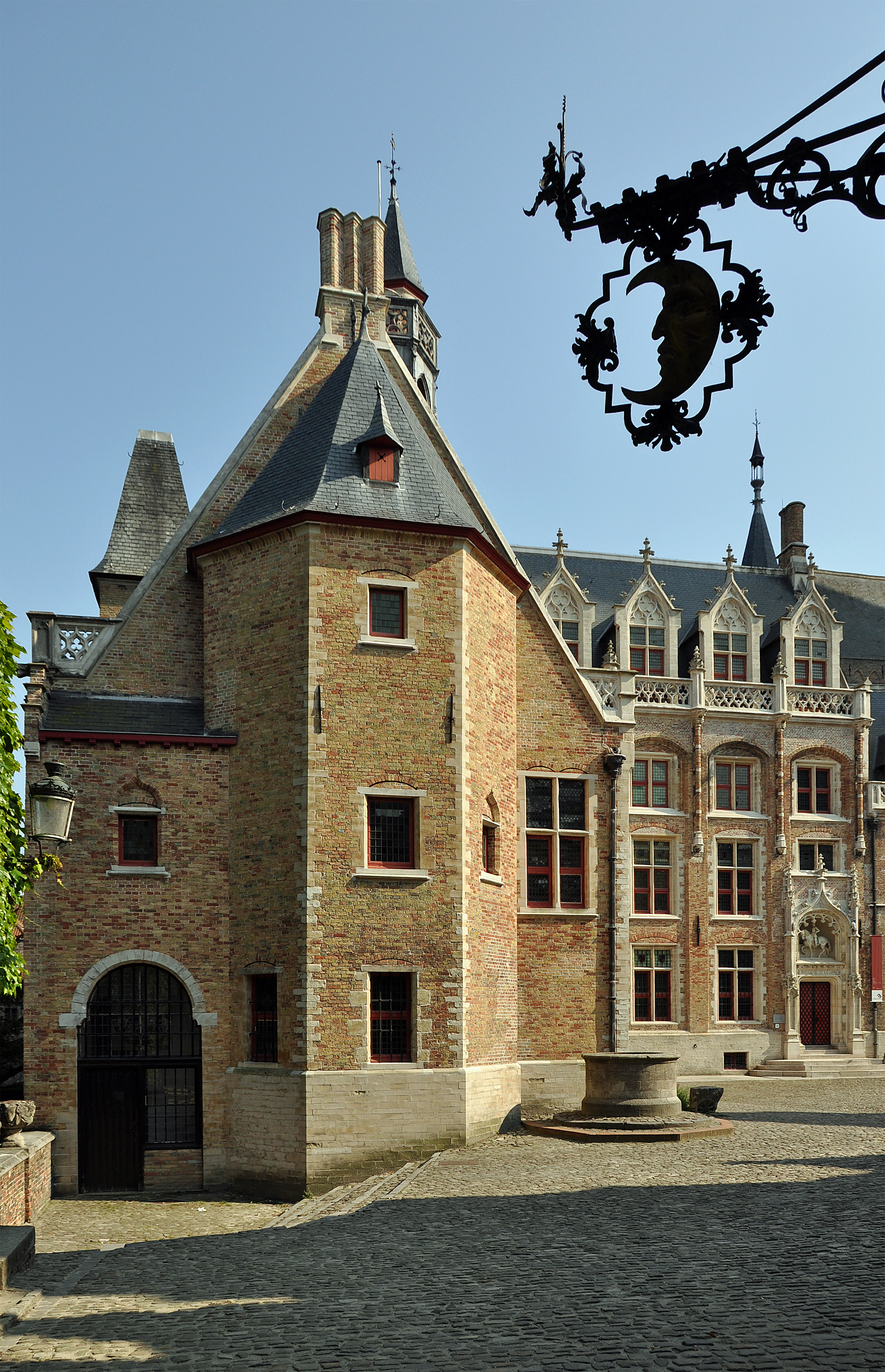 Bruges (Belgium): Gruuthuse Museum